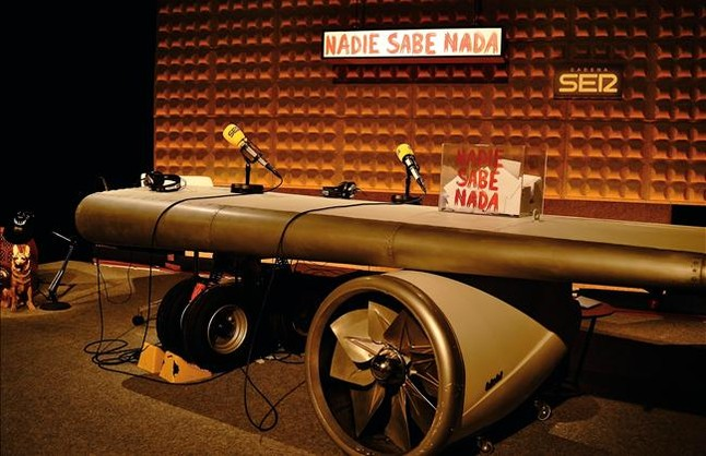 Studio from de radio program from Spain "Nadie Sabe Nada" in 2013.